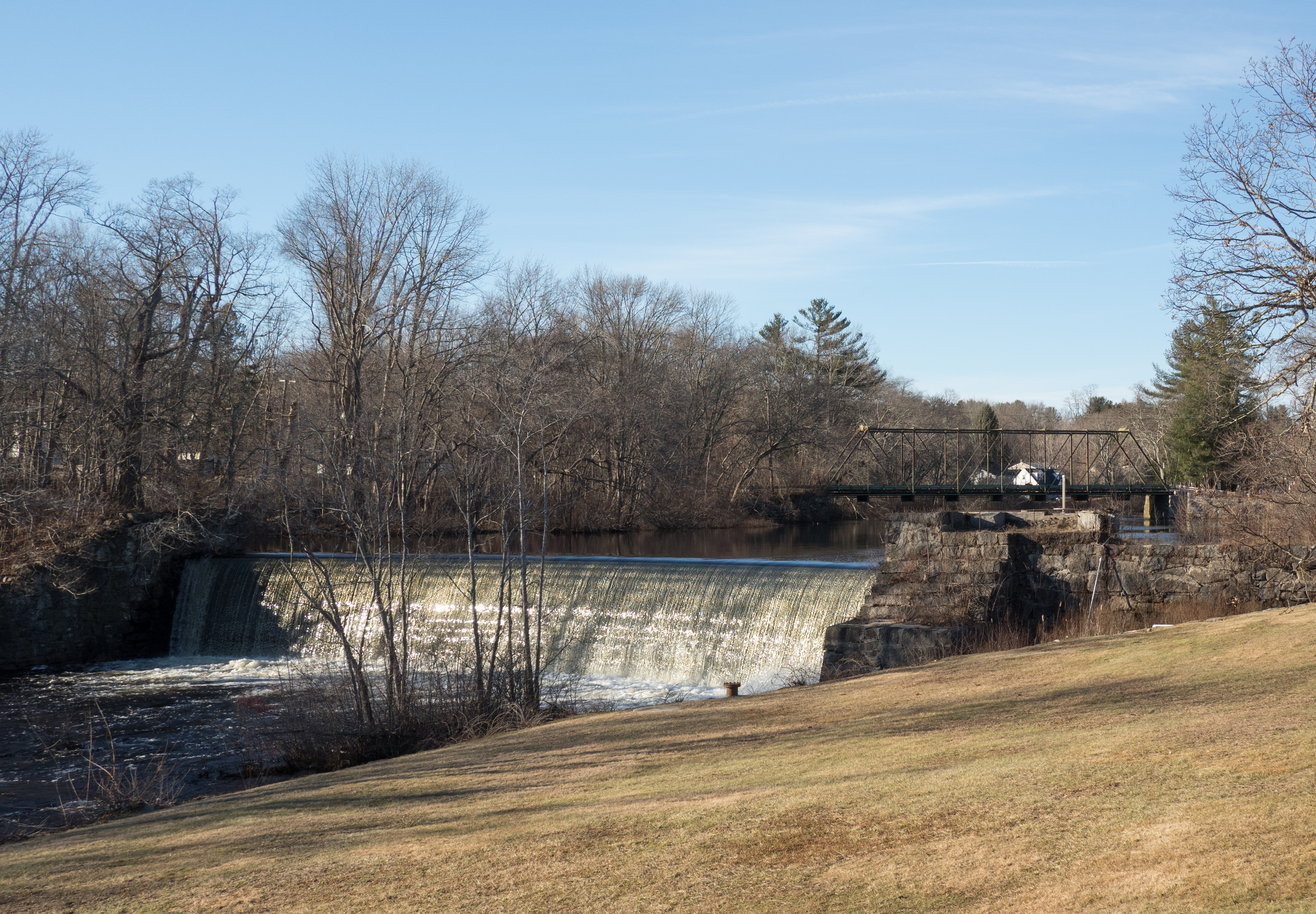 Arkwright Bridge and waterfall in Coventry, Rhode Island